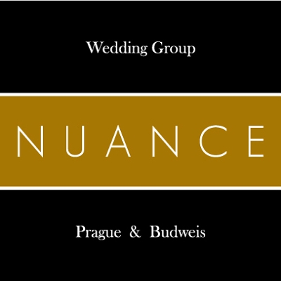 Company logo NUANCE